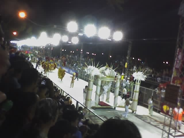 The Carnival in Encarnación